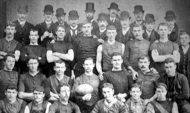 Essendon FC team, their first premiership